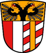 Coat of arms of the district of Swabia (Bavaria, Germany) NOTE: The mediæval Duchy of Swabia used the coat of arms to the right, not these arms.